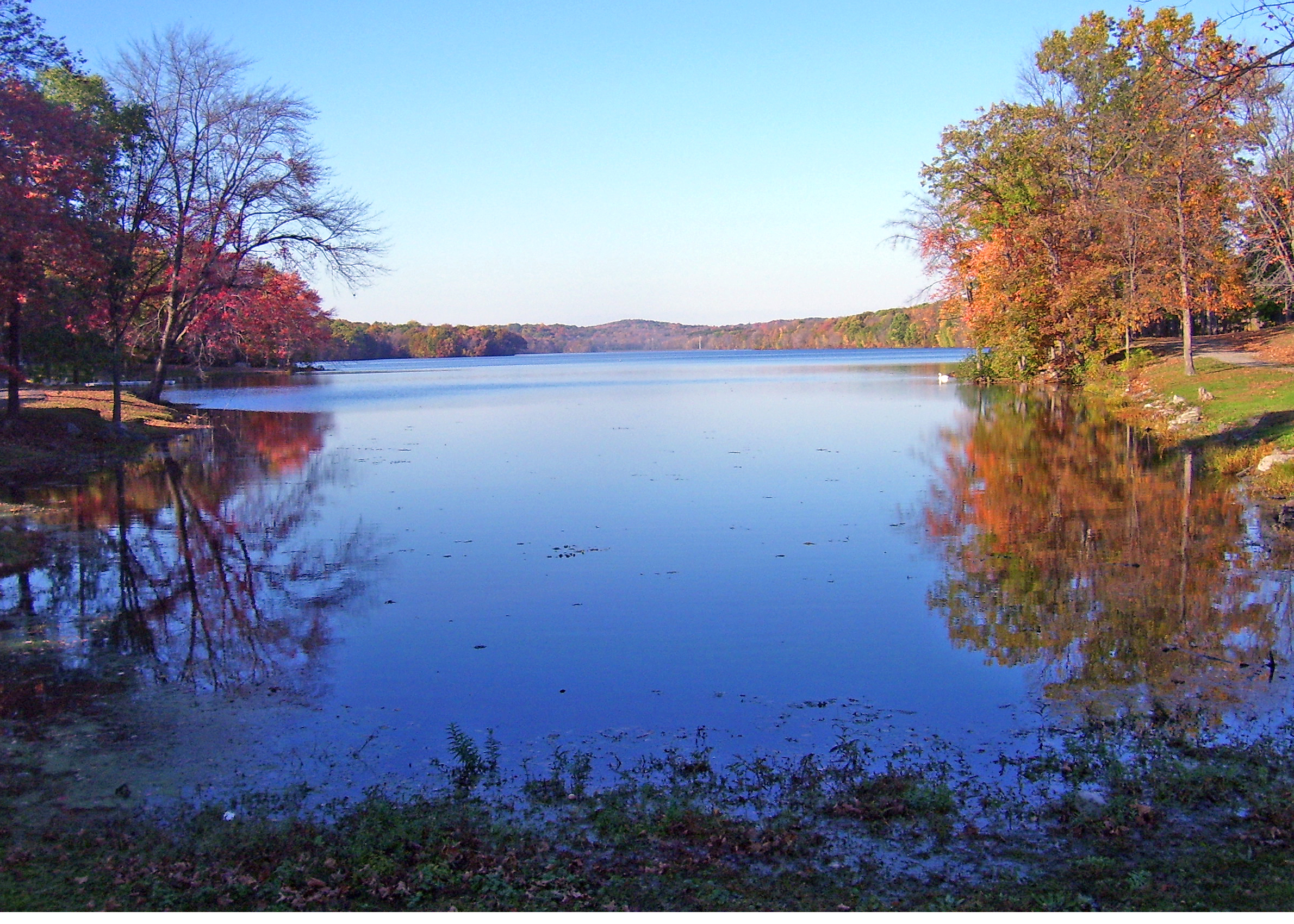 Chadwick Lake, main reservoir of the Town of Newburgh, NY, YSA, from southern end.